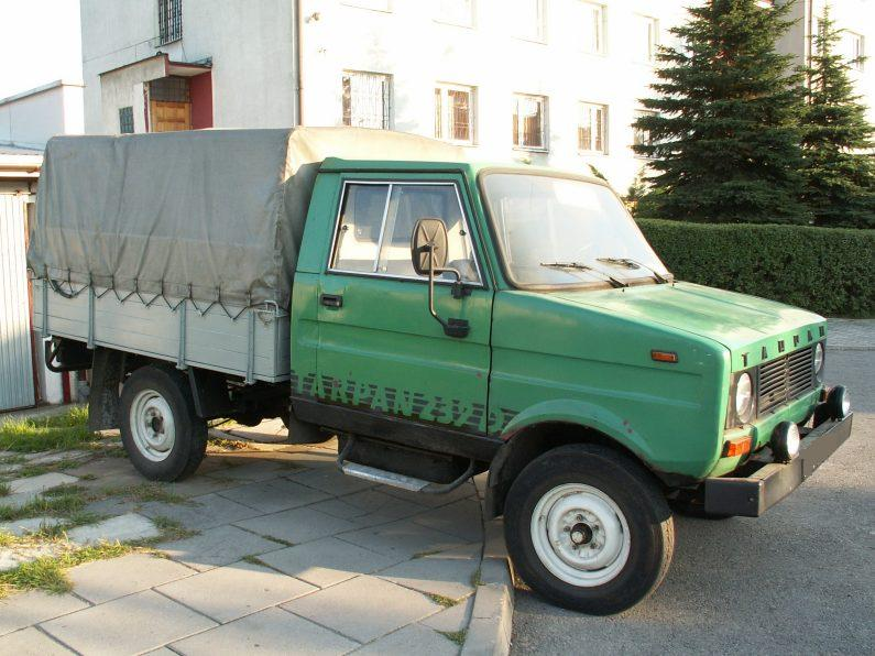 FSR Tarpan 239D.